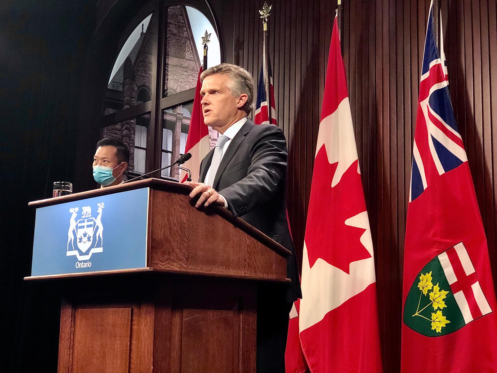 Rod Phillips, Ontario Finance Minister, presents the 2020 First Quarter Financial Update. It was the first financial update provided since the March 25, 2020 Economic and Fiscal Update based on the impacts of COVID-19.